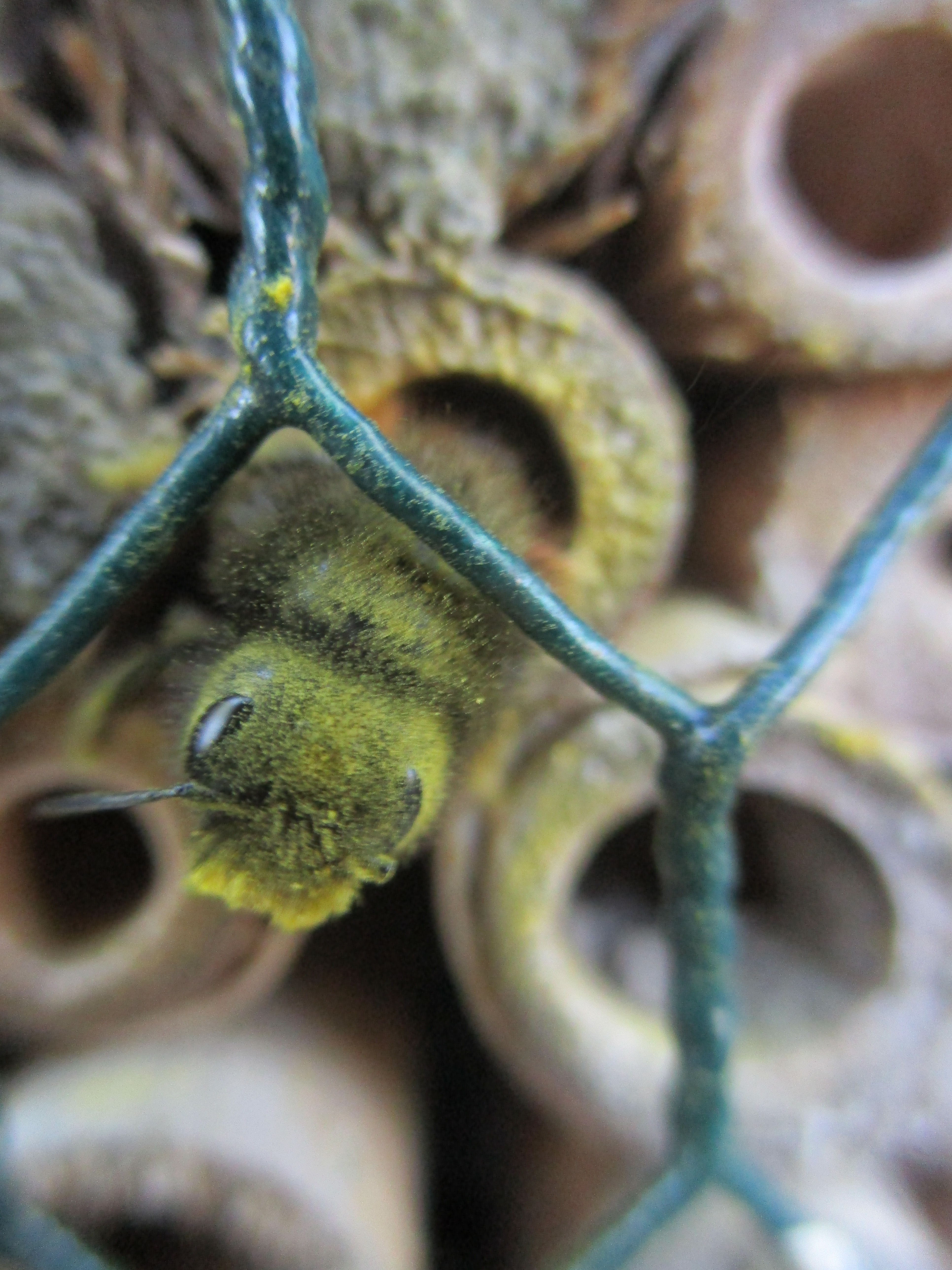 Bee covered with pollen